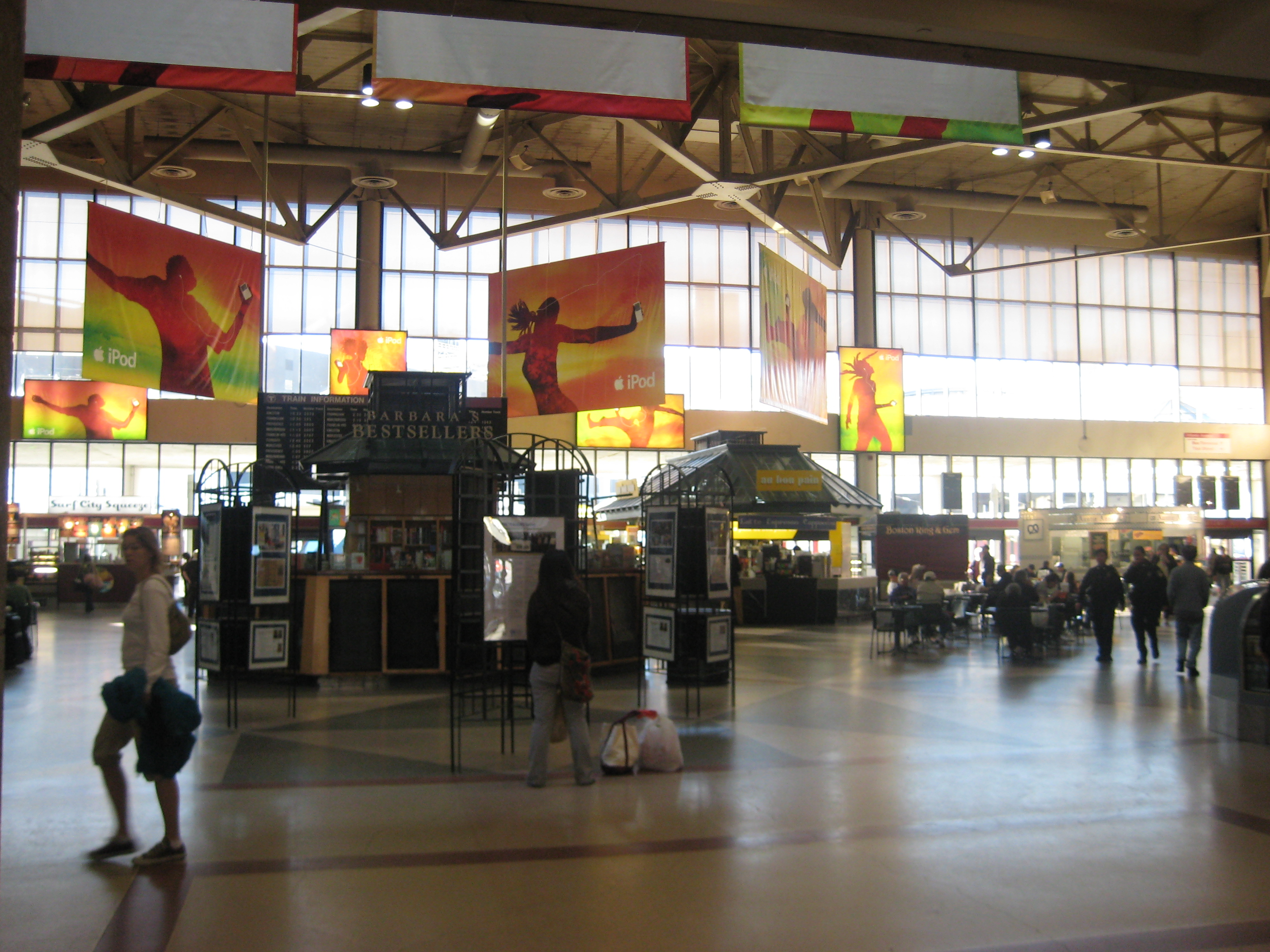 Main waiting area at South Station, a major transportation hub in Boston, Massachusetts